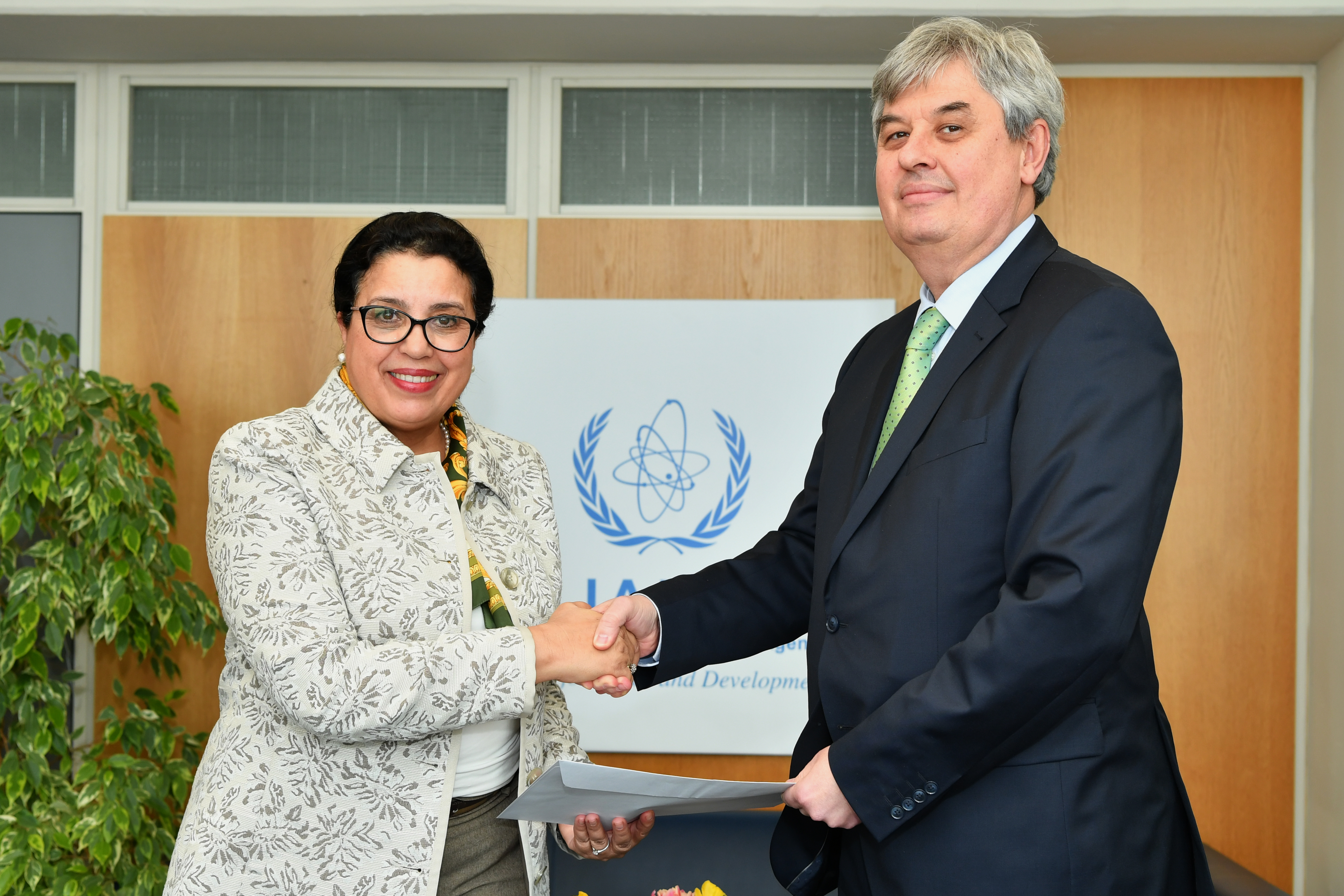 The new Resident Representative of North Macedonia to the IAEA, HE Mr Igor Djundev, presented his credentials to Najat Mokhtar, IAEA Acting Director General, and Head of the Department of Nuclear Sciences and Applications at the IAEA headquarters in Vienna, Austria, on 14 March 2019 Photo Credit: Dean Calma / IAEA